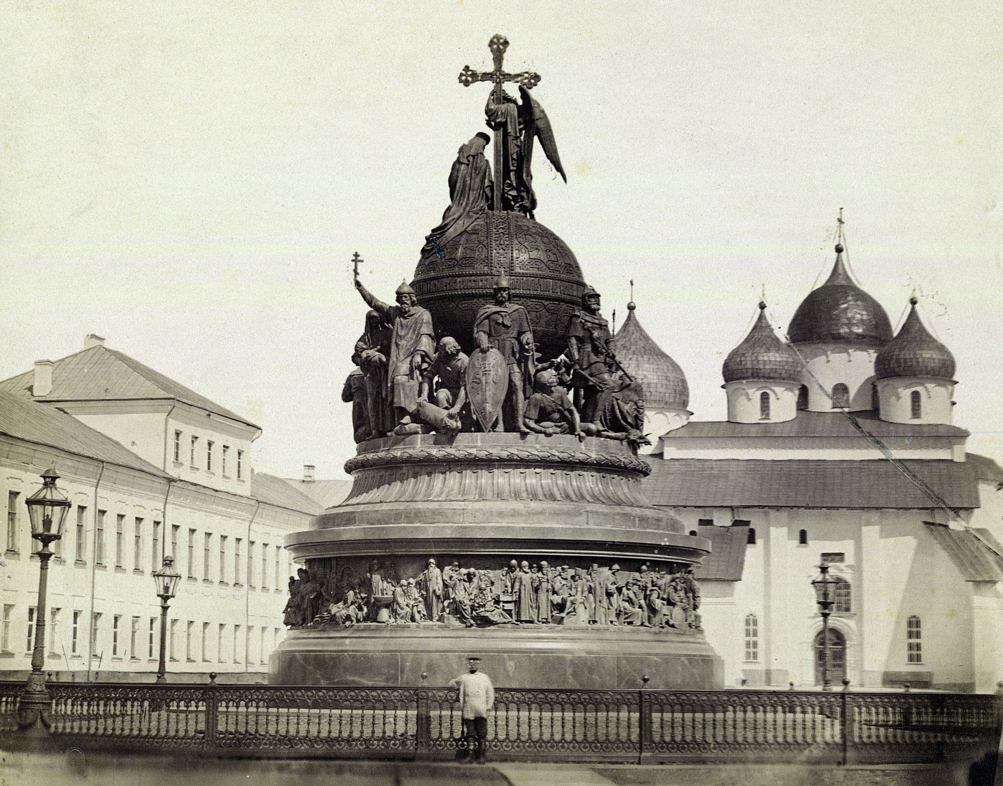 Memorial in Novgorod (Russia) to commemorate the 1000 anniversary of Russia. CREATED/PUBLISHED: [between 1862 and 1880] Forms part of: George Kennan Papers. Memorial was opened on 8 september 1862.